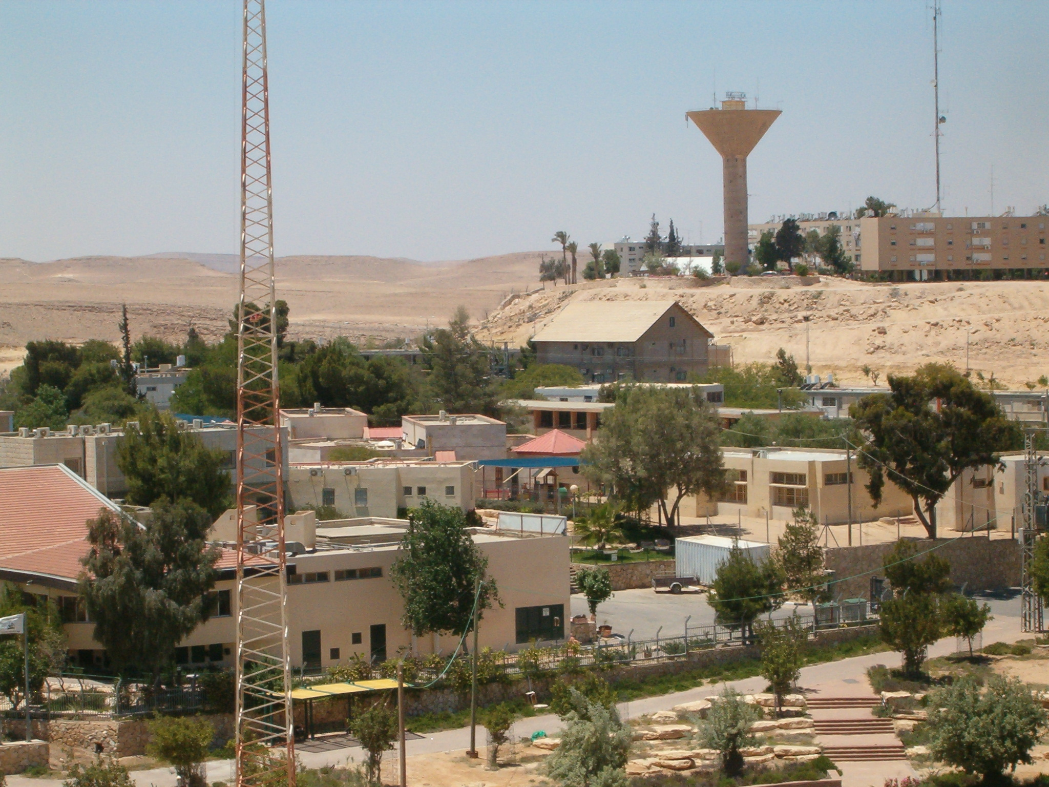 A view on Mitzpe Ramon from visitor's center on the edge of the Ramon crater.